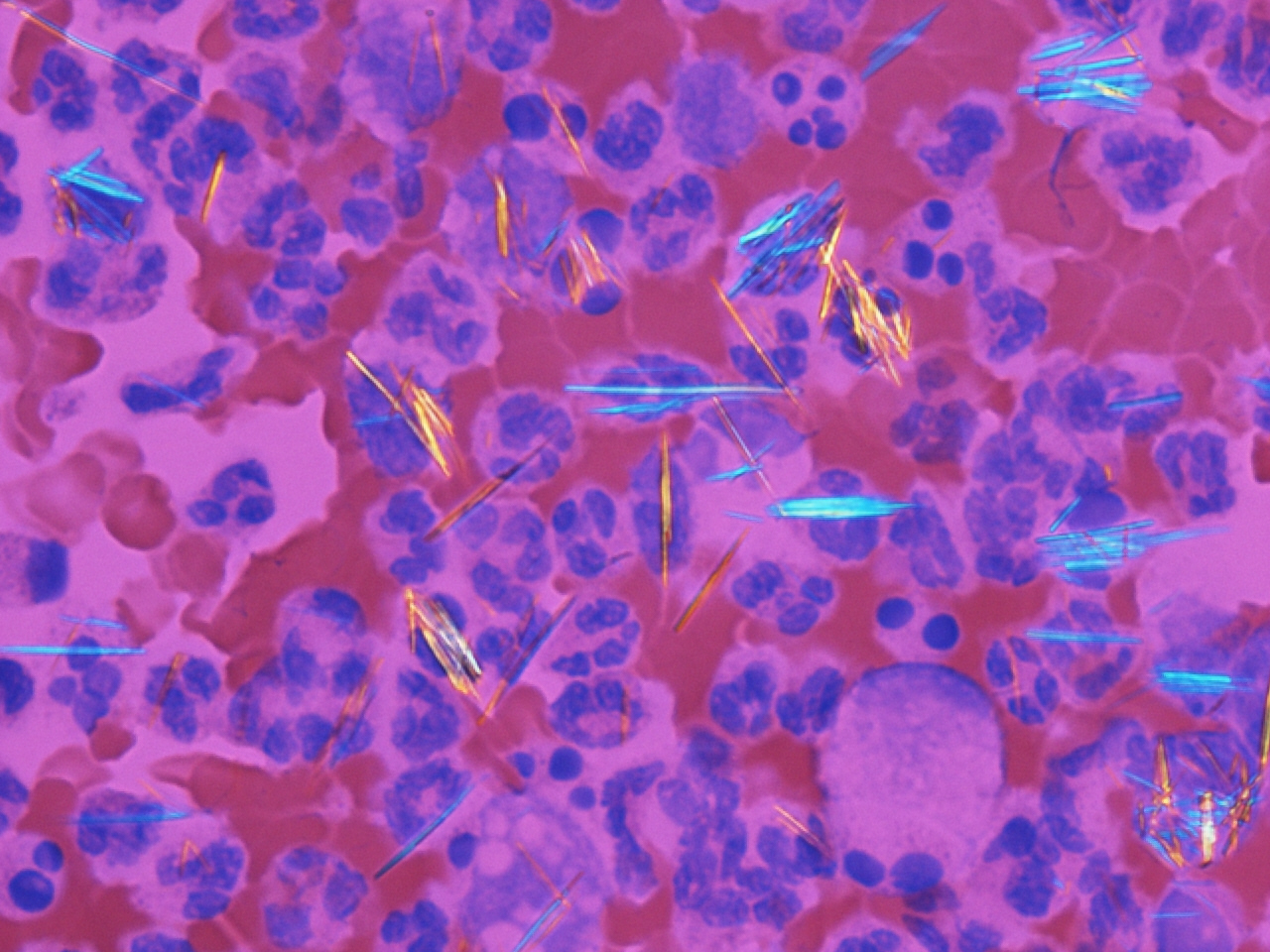 Gout - monosodium urate crystals (20X, polarized, red compensator)